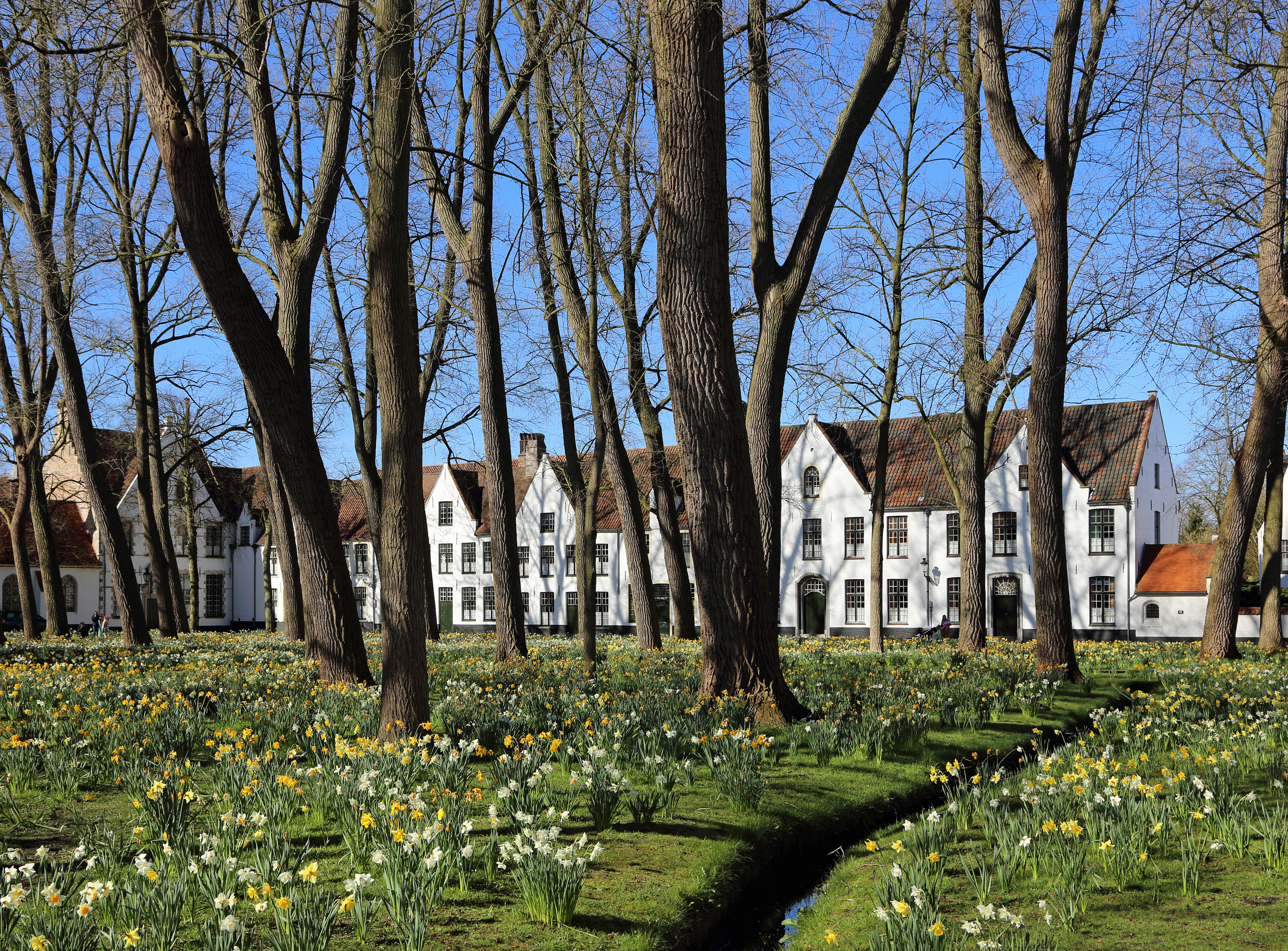 Bruges (Belgium): the Beguinage